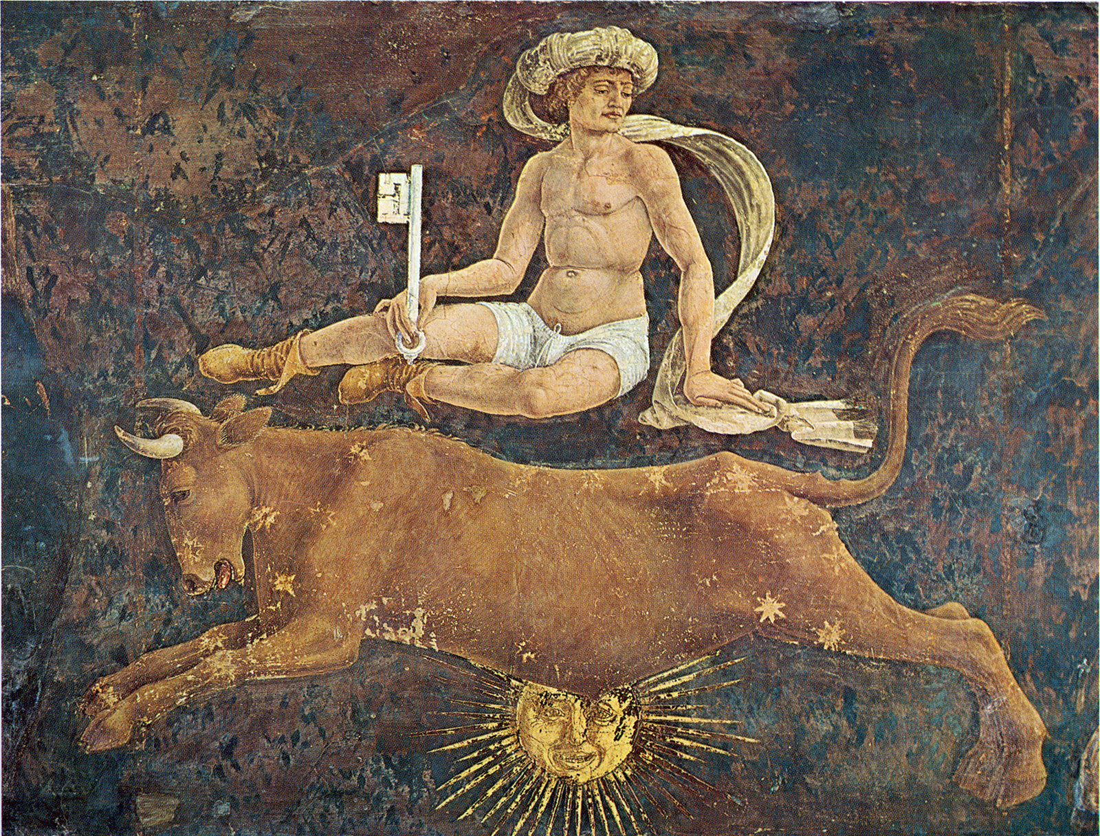 various Ferrarese artist Allegory of April Fresco Palazzo Schifanoia, Ferrara